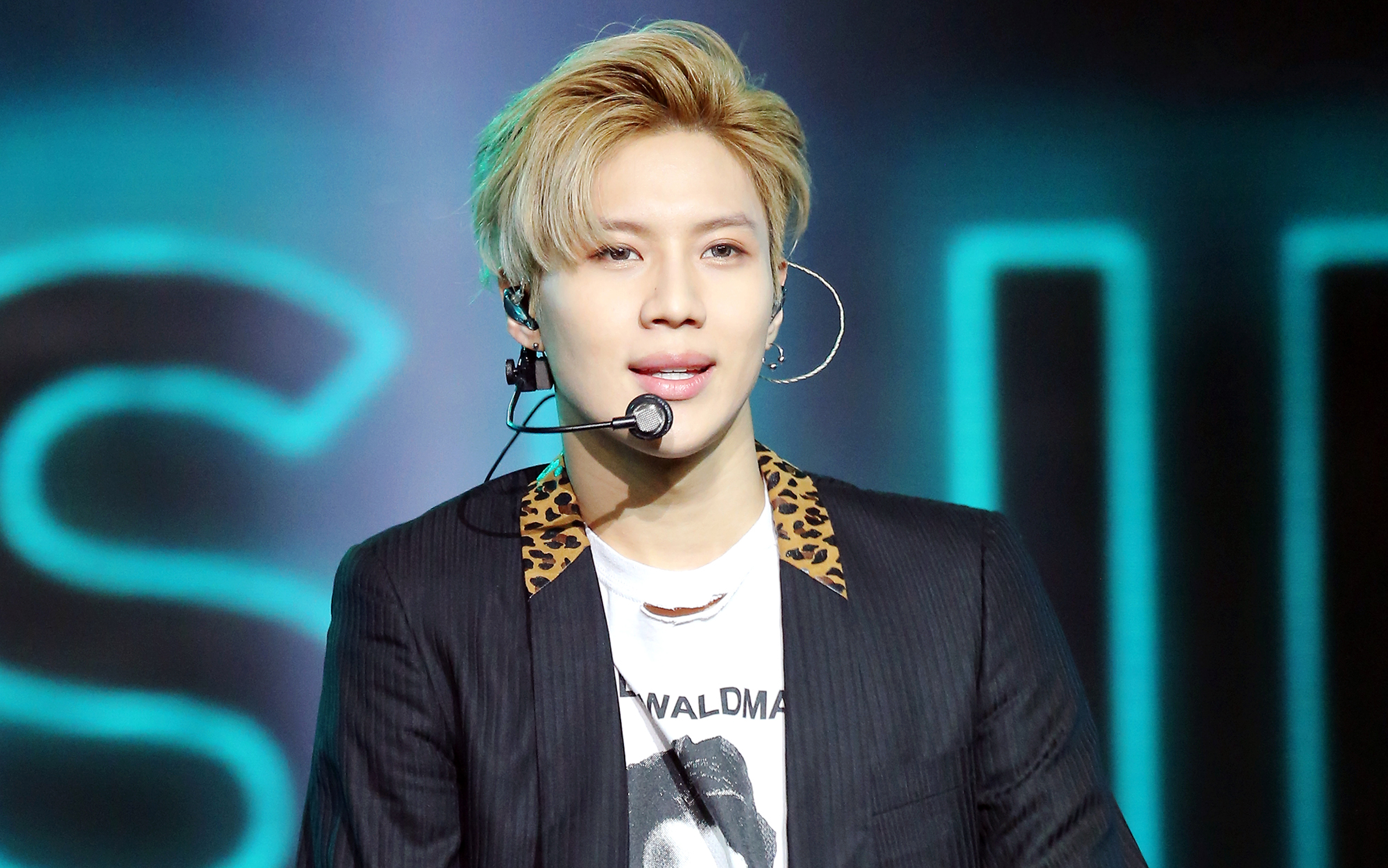 Lee Tae-min at the 23rd Dong Fang Feng Yun Bang Awards, on March 28 2016.